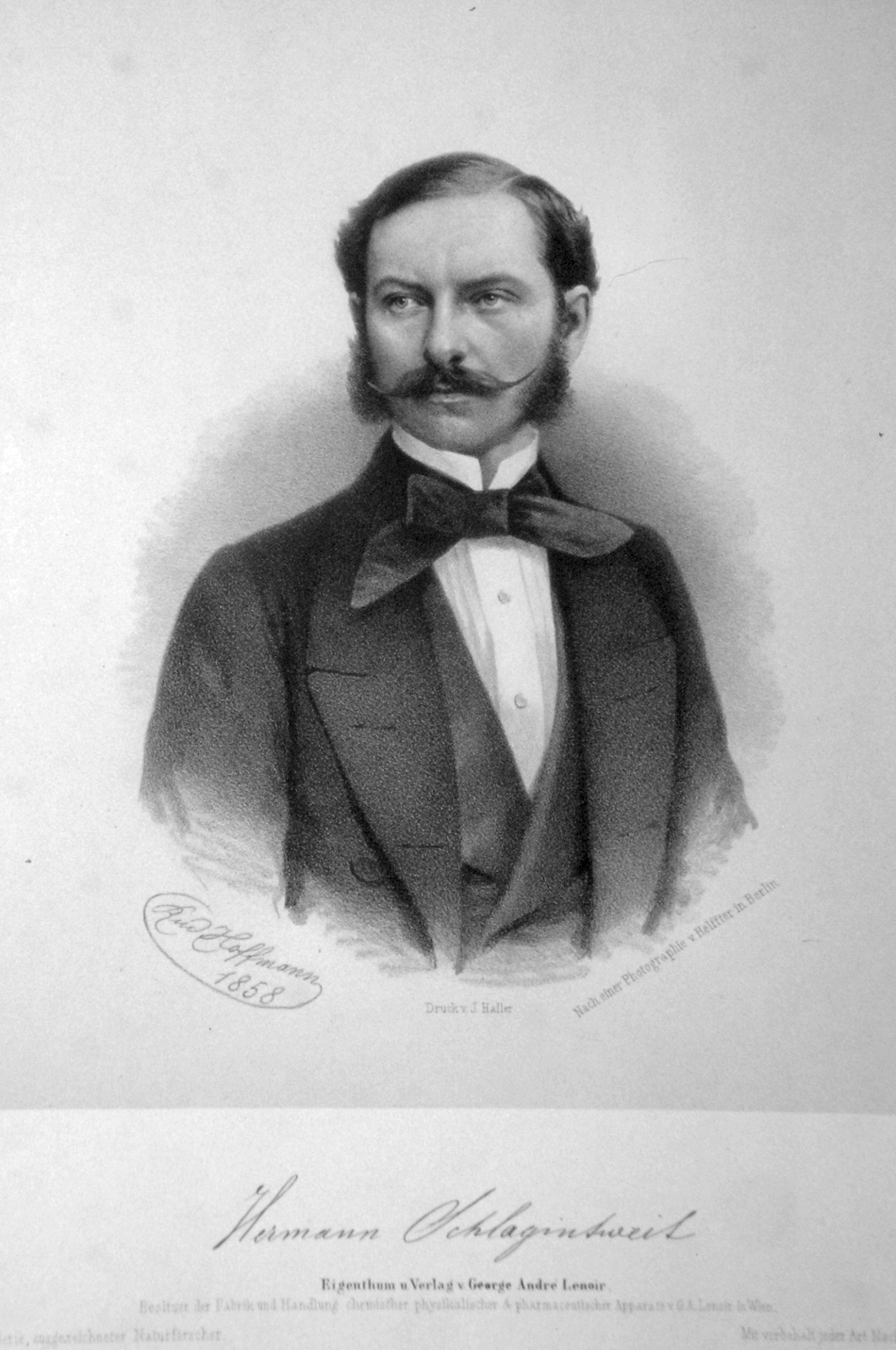 Hermann Schlagintweit (1826-1882), Lithography by Rudolf Hoffmann after a Foto by Halffter (Berlin) 1858